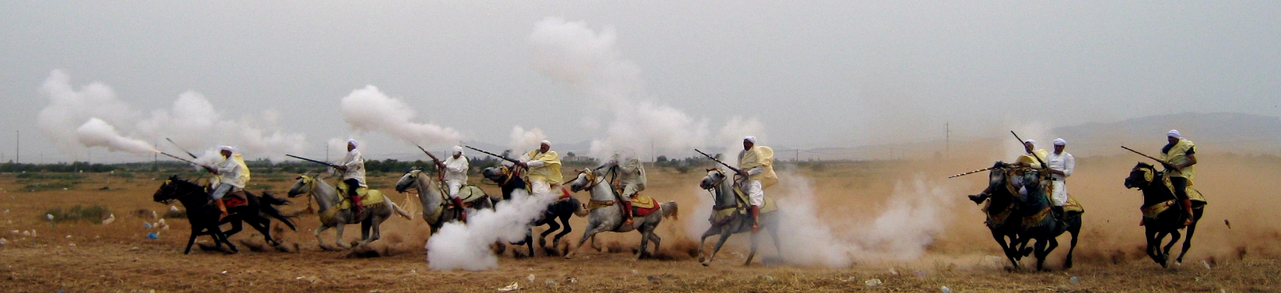 Fantasia in Benidrar(Near Oujda). Morocco(July 7 2010)